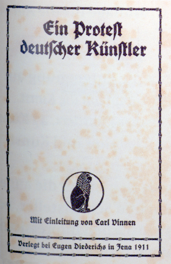 Cover of the publication Ein Protest deutscher Künstler (“A protest of german artists”) by Carl Vinnen, 1911.